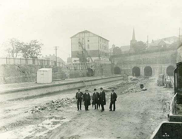 North Sydney Station Site Digital ID: 12685_a007_a00704_8723000078r